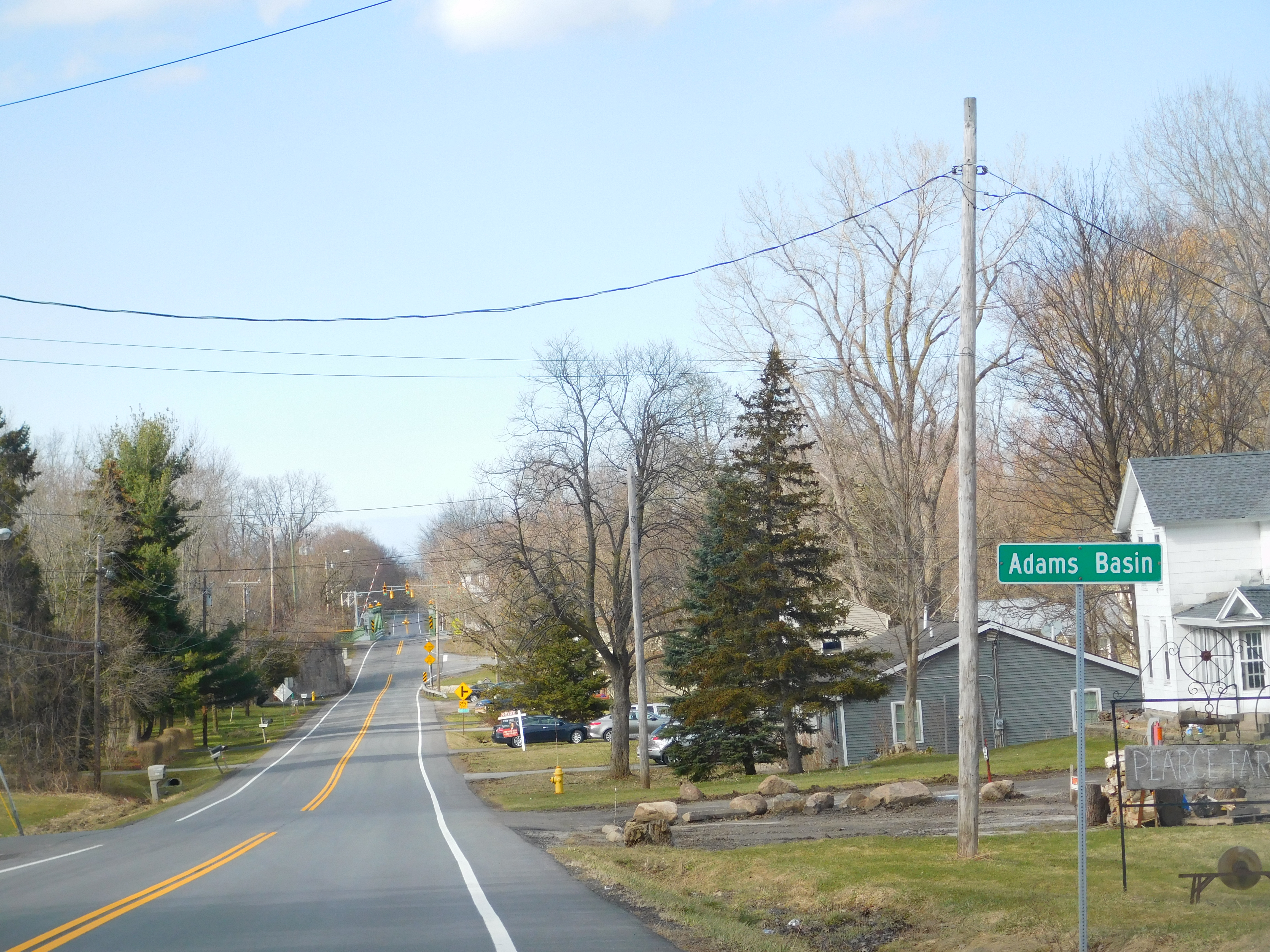 The hamlet of Adams Basin, New York in April 2018.